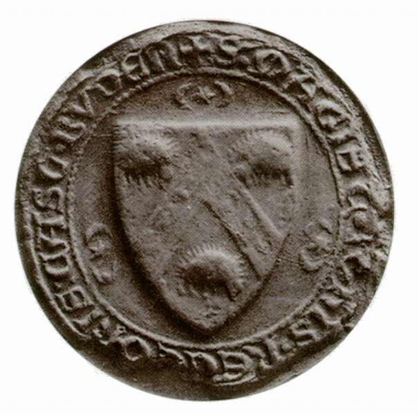 Seal of the Buda rector Henc fia János